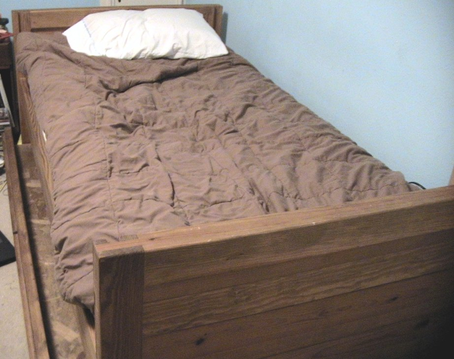 An example of a Trundle bed.